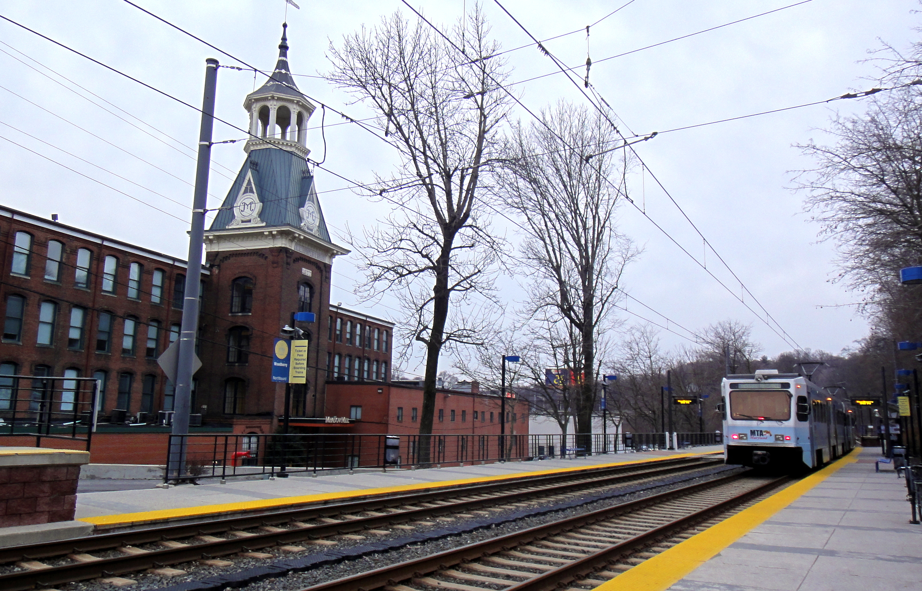 Southbound view of Woodberry station and adjacent historic mills